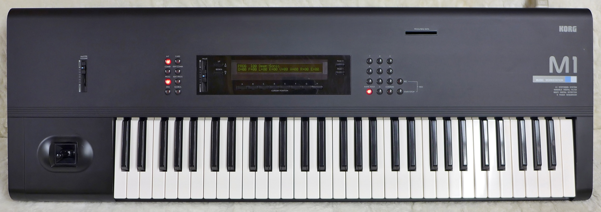 Brochure-style view of Korg M1 synthesizer/workstation. (This version features entire-image low-level application of "shadow/highlight" filter to even out brightness and increase shadow detail, plus application of noise reduction. )